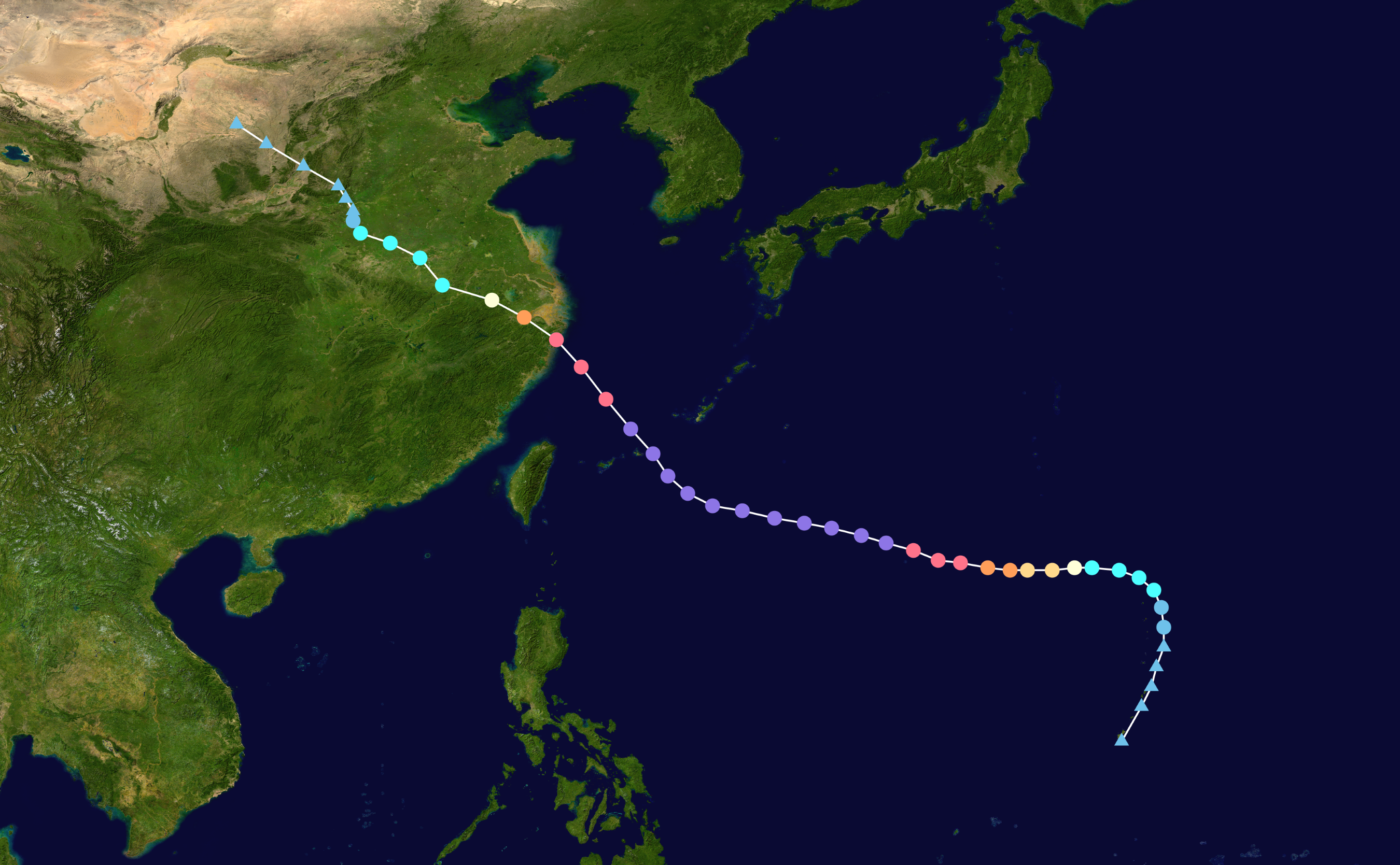 Track map of Typhoon Wanda of the 1956 Pacific typhoon season. The points show the location of the storm at 6-hour intervals. The colour represents the storm's maximum sustained wind speeds as classified in the Saffir–Simpson scale (see below), and the shape of the data points represent the nature of the storm, according to the legend below. Saffir–Simpson scale Tropical depression≤38 mph≤62 km/h Category 3111–129 mph178–208 km/h Tropical storm39–73 mph63–118 km/h Category 4130–156 mph209–251 km/h Category 174–95 mph119–153 km/h Category 5≥157 mph≥252 km/h Category 296–110 mph154–177 km/h Unknown Storm type Tropical cyclone Subtropical cyclone Extratropical cyclone / Remnant low / Tropical disturbance / Monsoon depression